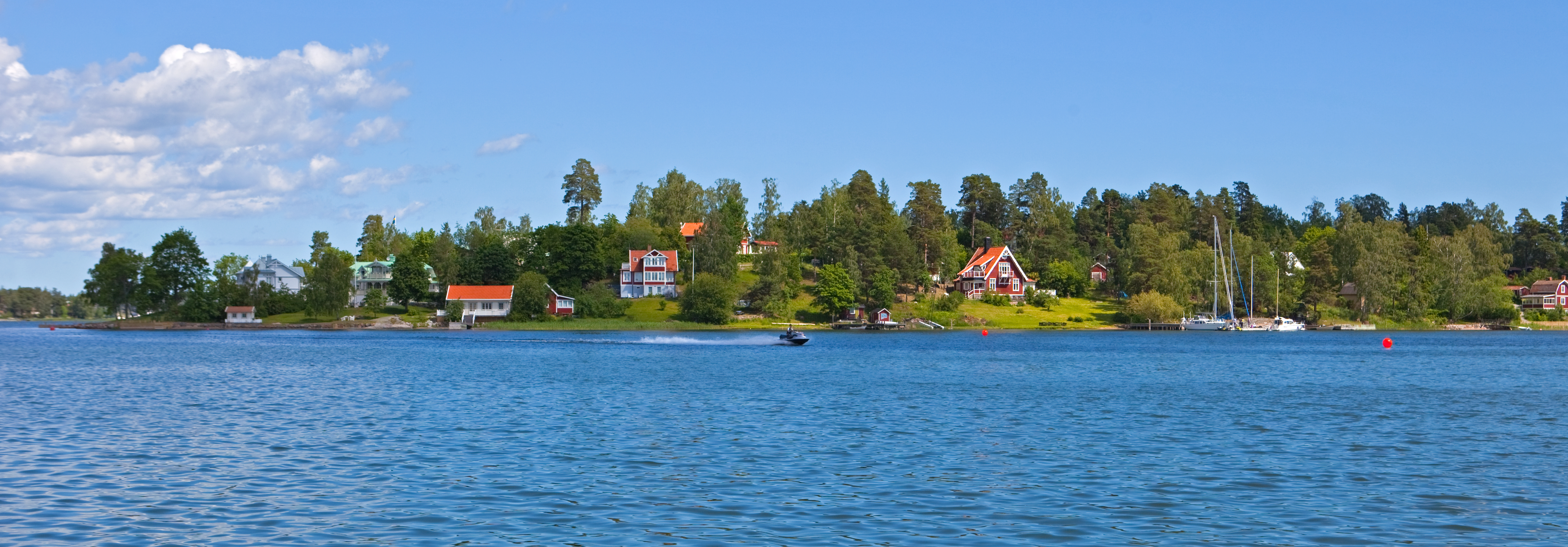 Water fronts on the north-western coast of Resarö island, June 2012